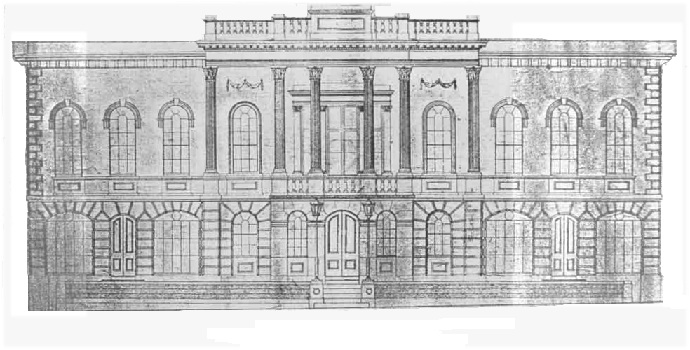 A sketch of the 1839 Town Hall, based on an original in the archives of St. Helens Library The original sketch is unusuable due to the poor quality of the original copy made. I have completely re-coloured, cleaned, and where possible drawn back in information lost during transfer. This document falls under Public Domain as a record of a Civic Building, destroyed by fire in 1872. Described as: "This imposing building, erected by public subscription, on the west side of the New Market Place, was opened on 8 October 1839. Peter Greenall had been the prime mover, and that day in its assembly room (whose court room furnishings were designed to vanish below floor level), his wife entertained the invited guests to luncheon. The Town Hall becamse the venue for social events, from a cavalry ball given by Sir John Gerard, to concerts and public meetings. In addition to the courtroom there were rooms for the magistrates, a bridewell and a house for the constable. The Improvement Commissioners met here. It housed the Mechanics Institute, and found space for the first public library. Much used, it was partly burned down in 1871 *luckily Galie's wines, stored in the basement, escaped the conflagration), repaired, and caught fire a second time in July 1873. It was decided to erect another building - more suited to the growing town with its new status of borough."